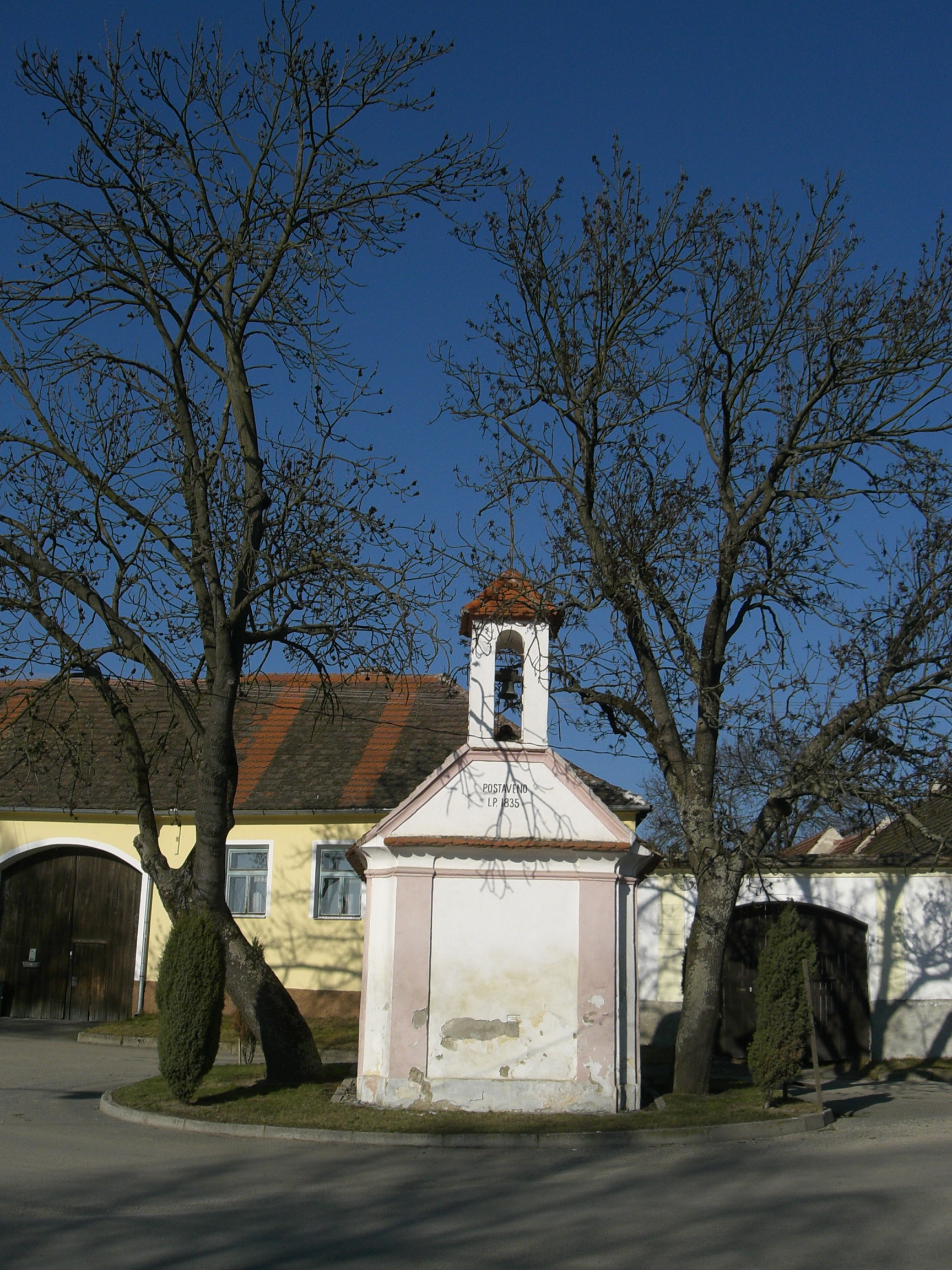 Belfry in old Hradiště (part of Písek town)